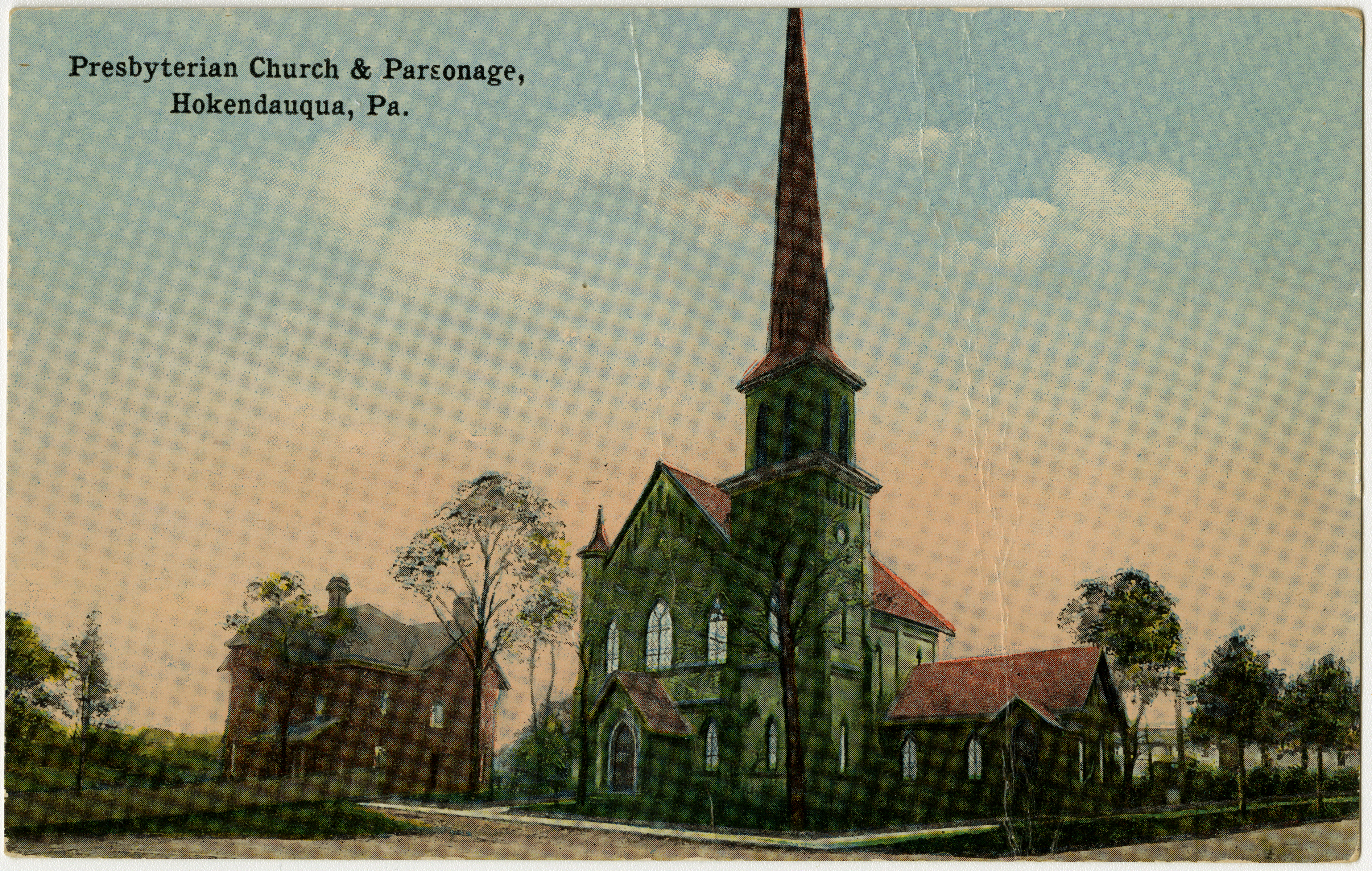 Presbyterian church in Hokendauqua, Pennsylvania from a pre-1923 postcard From RG 428, Postcard Collection, Presbyterian Historical Society, Philadelphia, Pennsylvania.